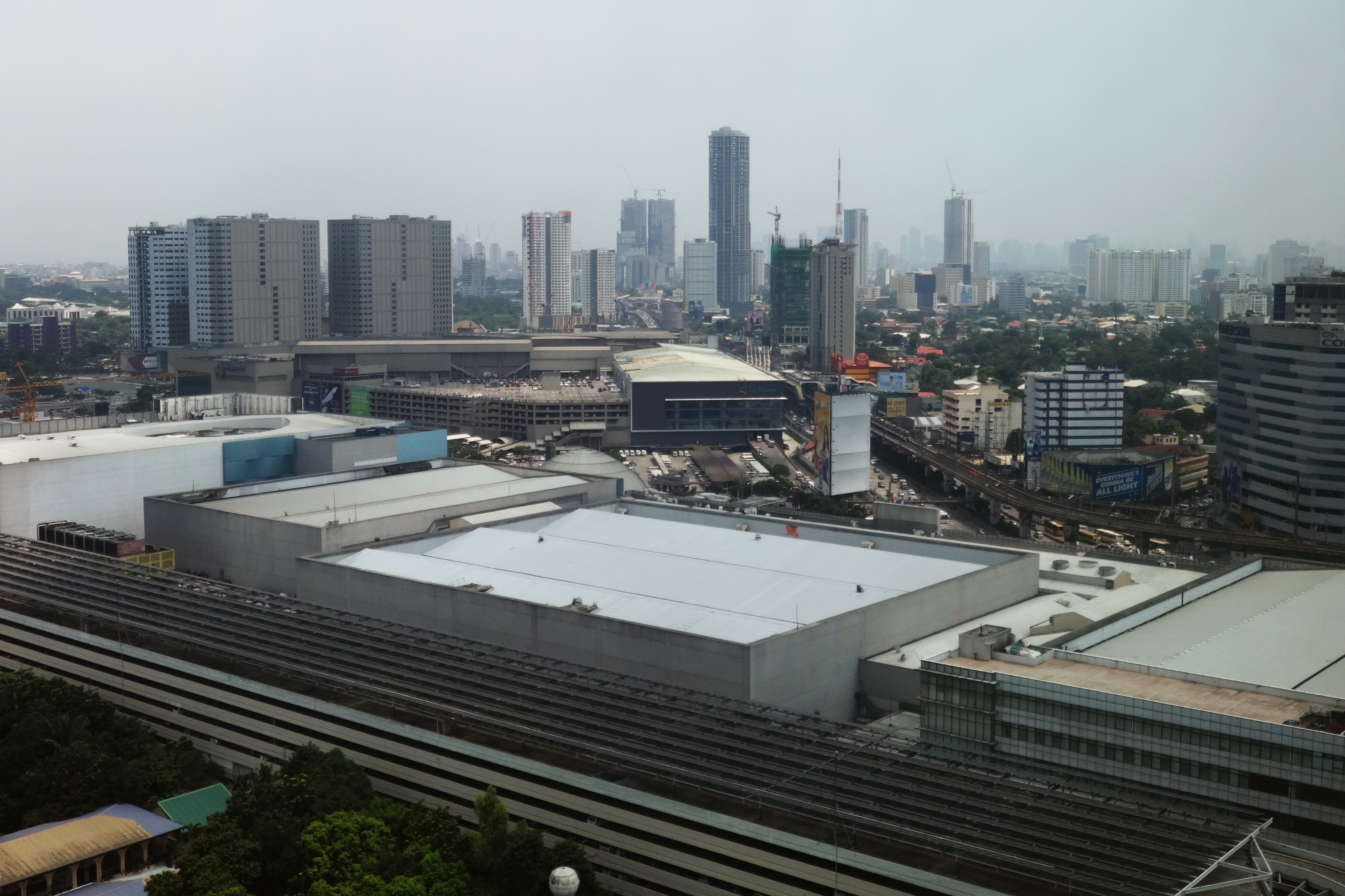 View of North EDSA in Quezon City. The intersection of E. Delos Santos Avenue (EDSA, AH26), North Avenue and West Avenue is one of the busiest places in Metro Manila, and it is part of Quezon City Central Business District. Among the places located here are SM City North EDSA, Trinoma Mall, and Vertis North. North EDSA is also proposed to become the common link of three rapid transit lines LRT Line 1, MRT Line 3, and future MRT Line 7.